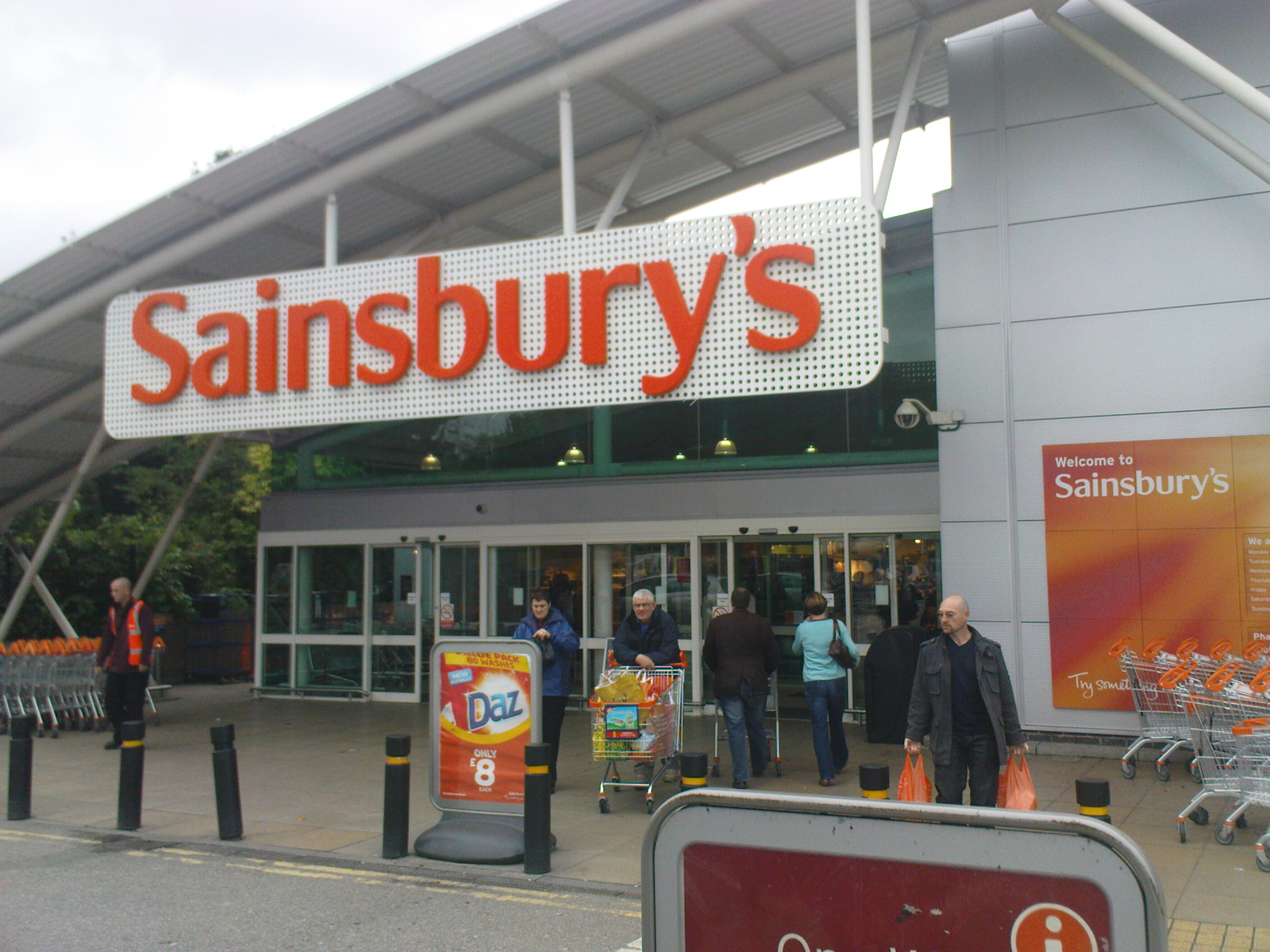 The front entrance of Sainsbury's Moortown in Leeds.